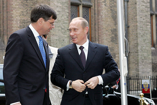 THE HAGUE, THE NETHERLANDS. With Prime Minister of the Netherlands Jan Peter Balkenende.